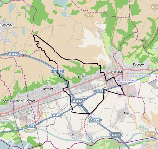 Geolocalisation: top: 45.8907 bottom: 45.8059 left: 4.9616 right: 5.0908